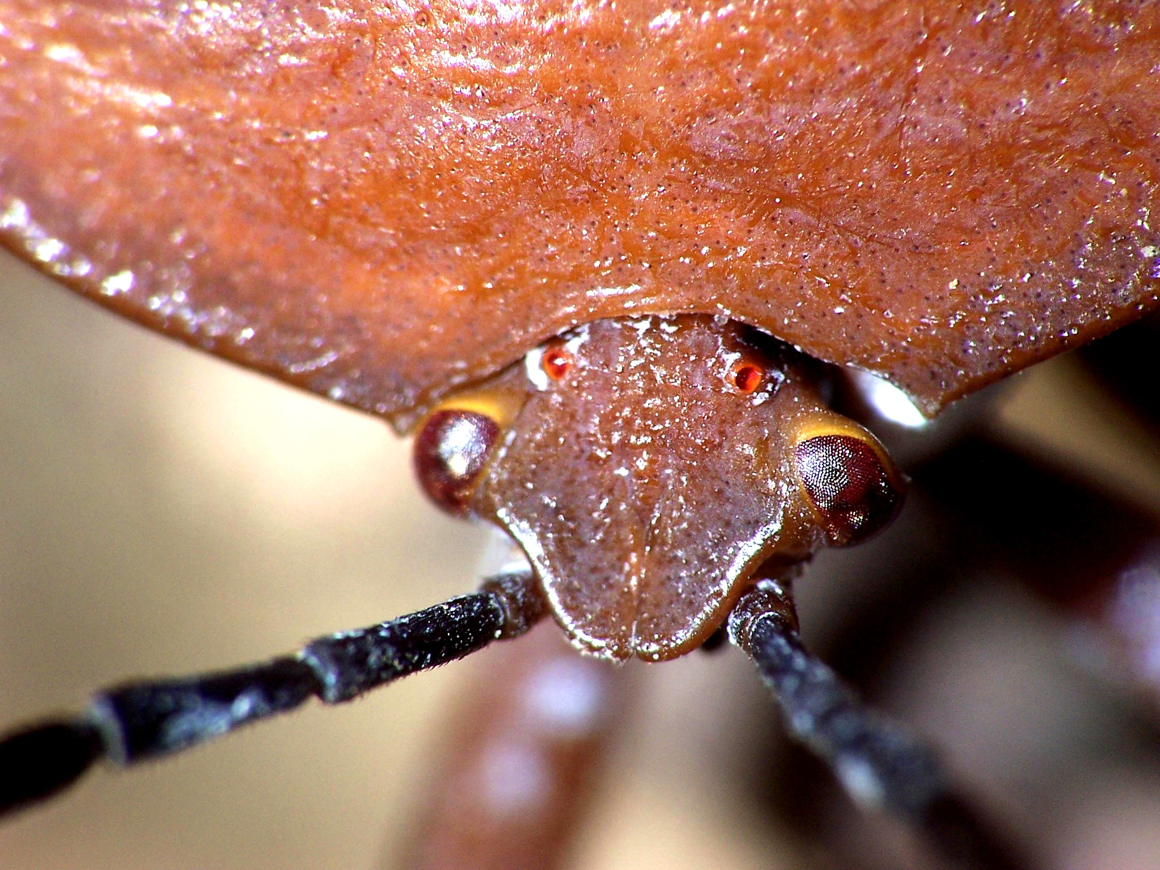 Got a video of its climbing actions as well. (Tessaratoma papillosa adult, head closeup)